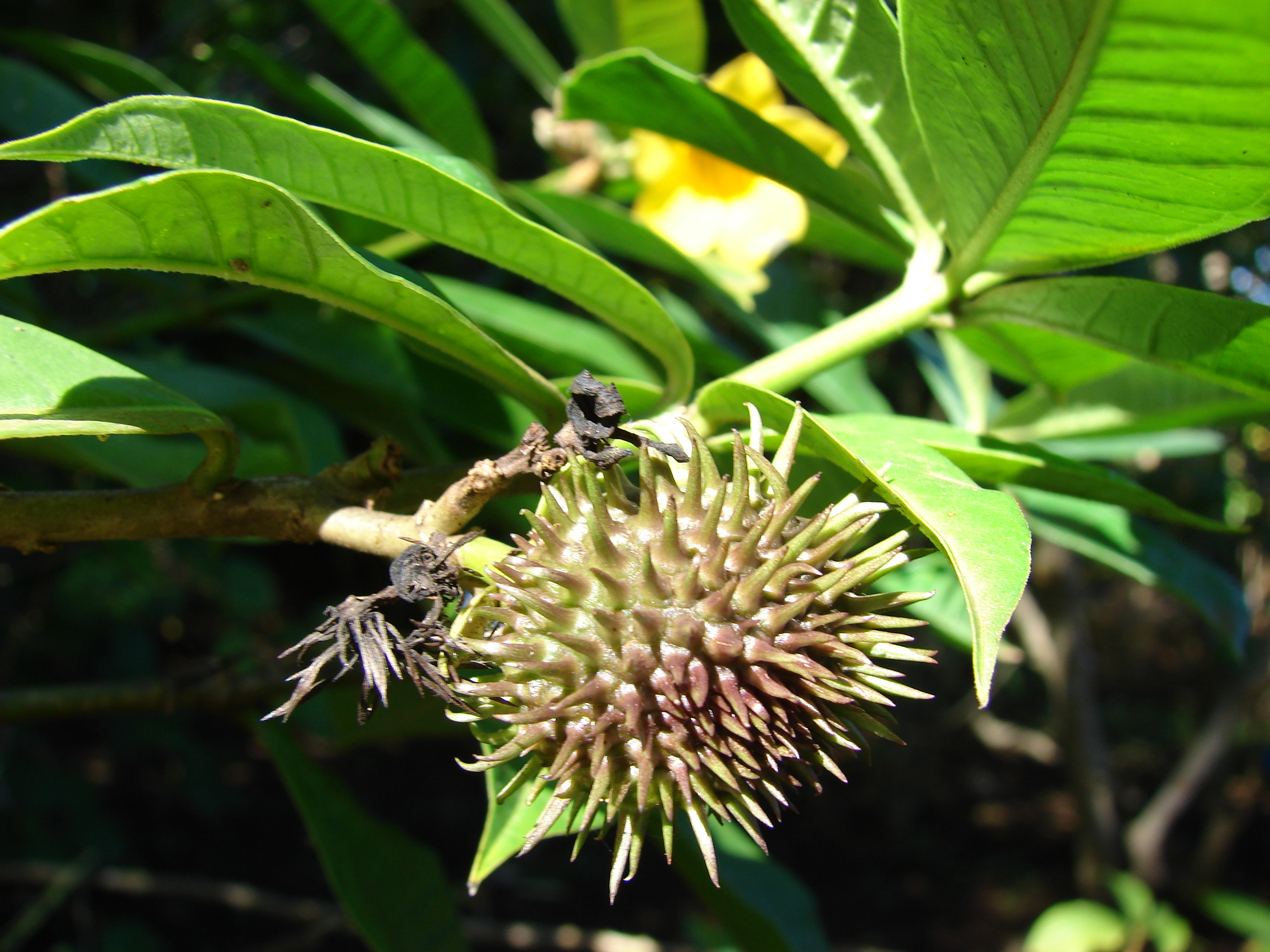 Allamanda schottii (fruit). Location: Maui, Enchanting Floral Gardens of Kula